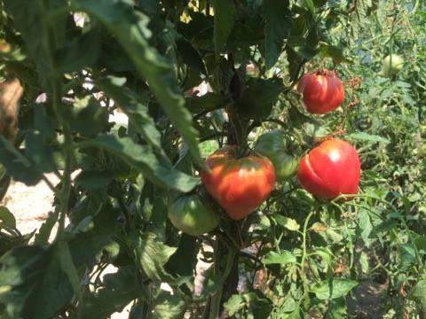 Macedonian tomato